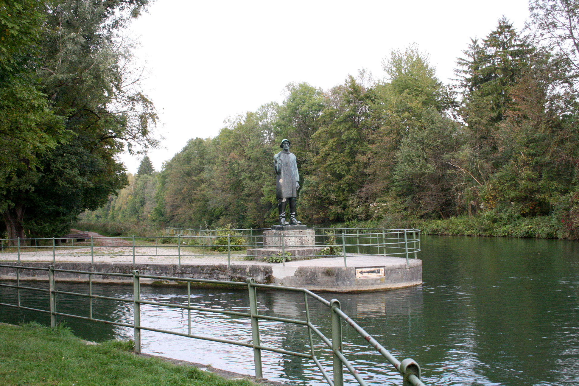 Floßkanal (raft channel) in Munich branching off the Isar-Werkkanal